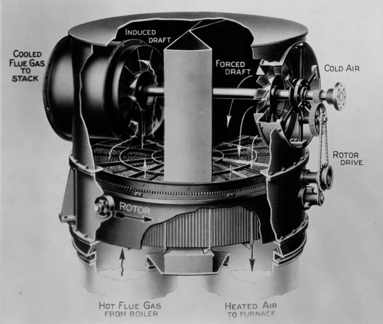 Ljungström regenerative heat exchanger. Original design by Fredrik Ljungström , Sweden early 1920's, to be used to increase the overall efficiency in steam turbine driven locomotives with coal fuel. The design was nominated as an historical landmark by ASME in 1995, ref: #185 Ljungstrom Air Preheater (1920.)